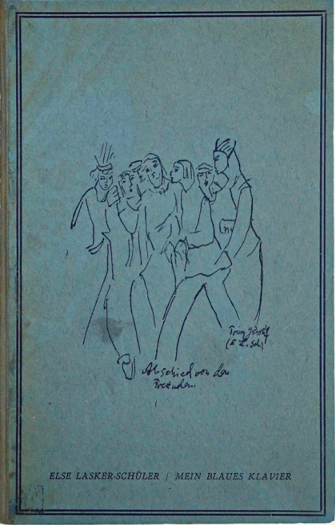 Gedichtband von Else Lasker-Schüler (1943)